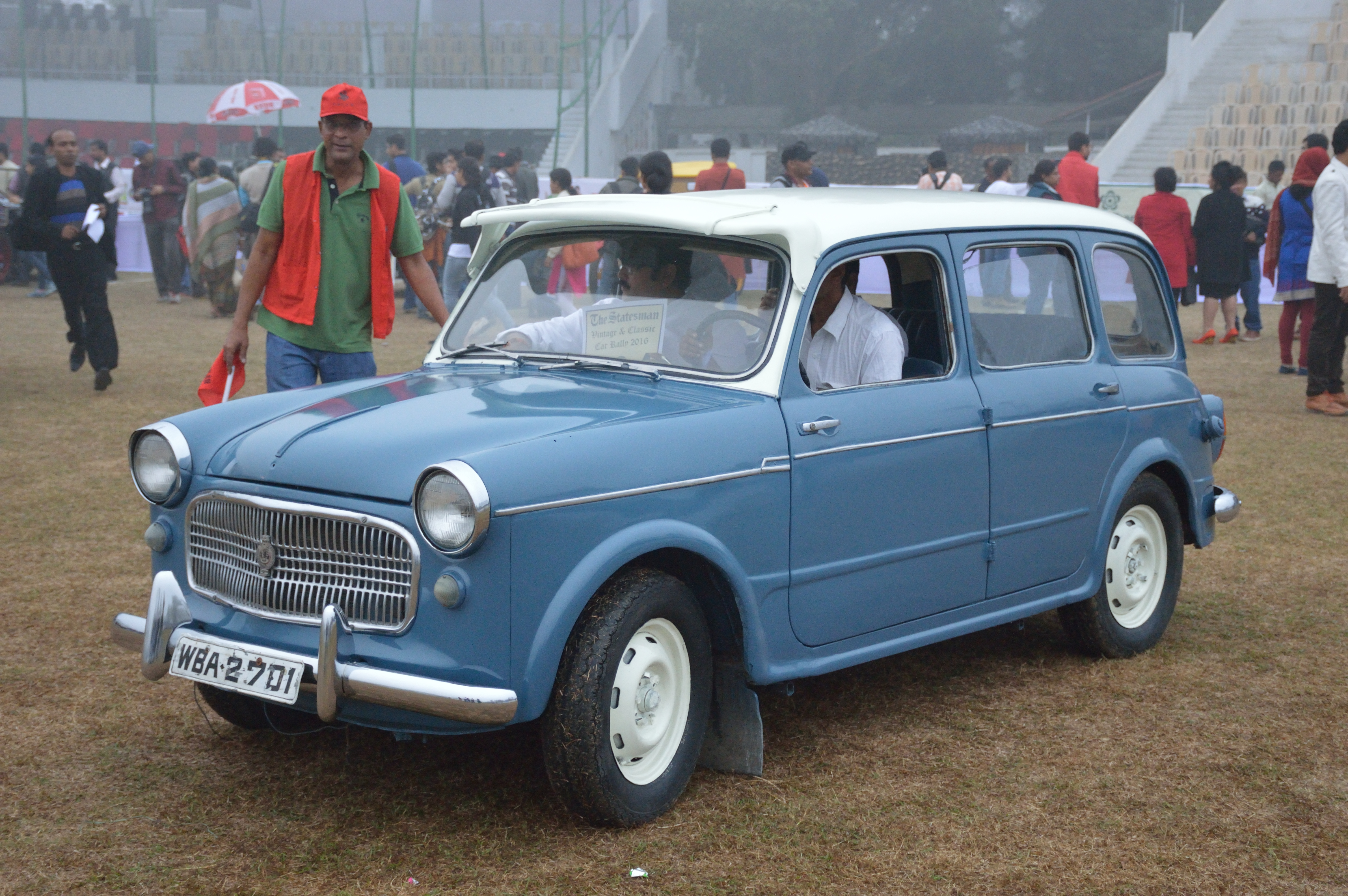 This car was exhibited and took part during ‘The Statesman Vintage & Classic Car Rally 2016’at the Eastern Command Sports Stadium of Fort William, Kolkata.The rally was held at the morning on Sunday, 31 January 2016 at the ECS Stadium, where 196 entrants were registered with cars and two-wheelers manufactured from 1906 to 1971. This one day festival held on the last Sunday of January 2016 in Kolkata since 1968 with full of period costume and cultural period pieces.